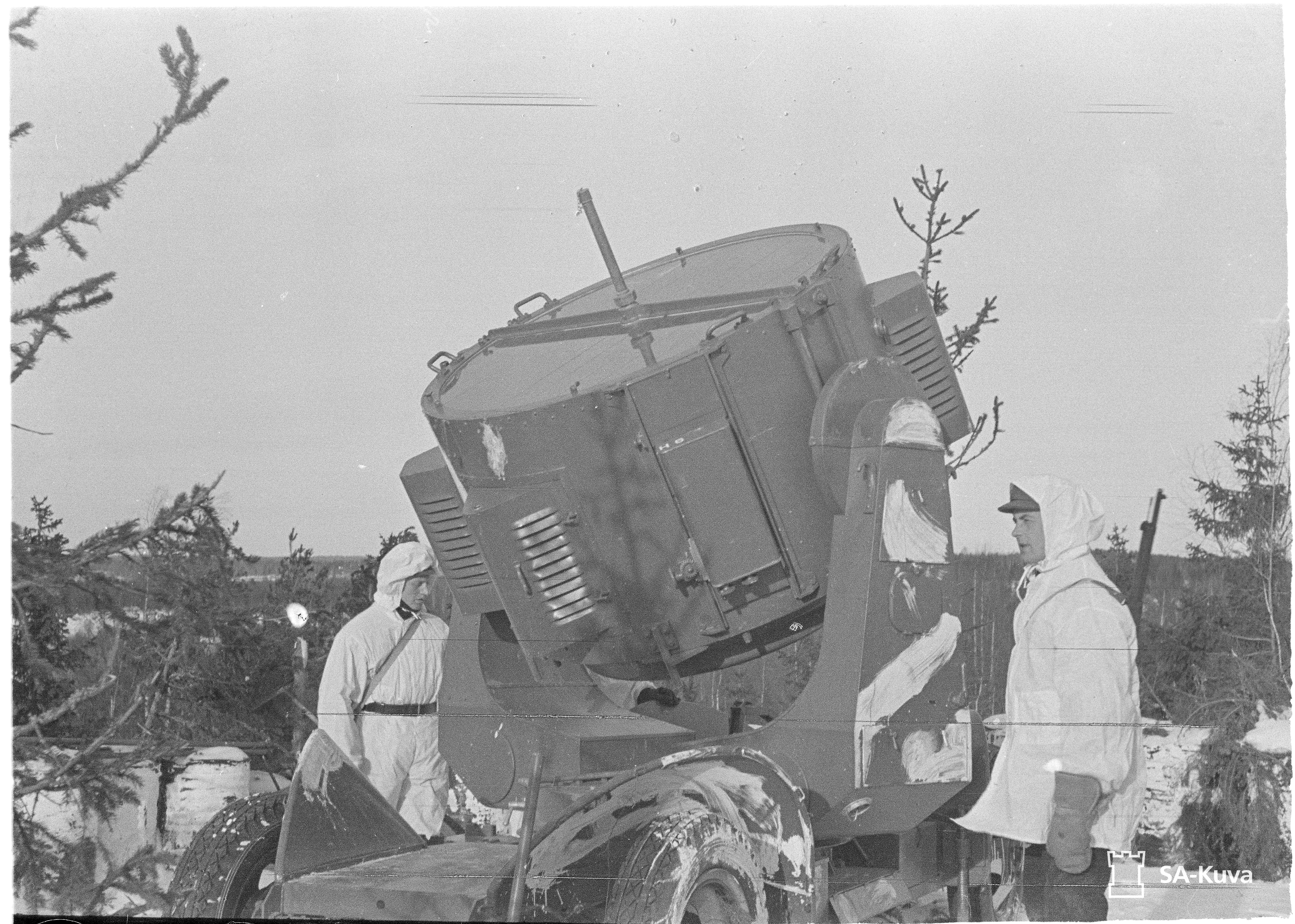 Strömberg Anti-aircraft searchlight on Pitkänkallionmäki (Haukilahti, Espoo) (SA-kuva 5738)